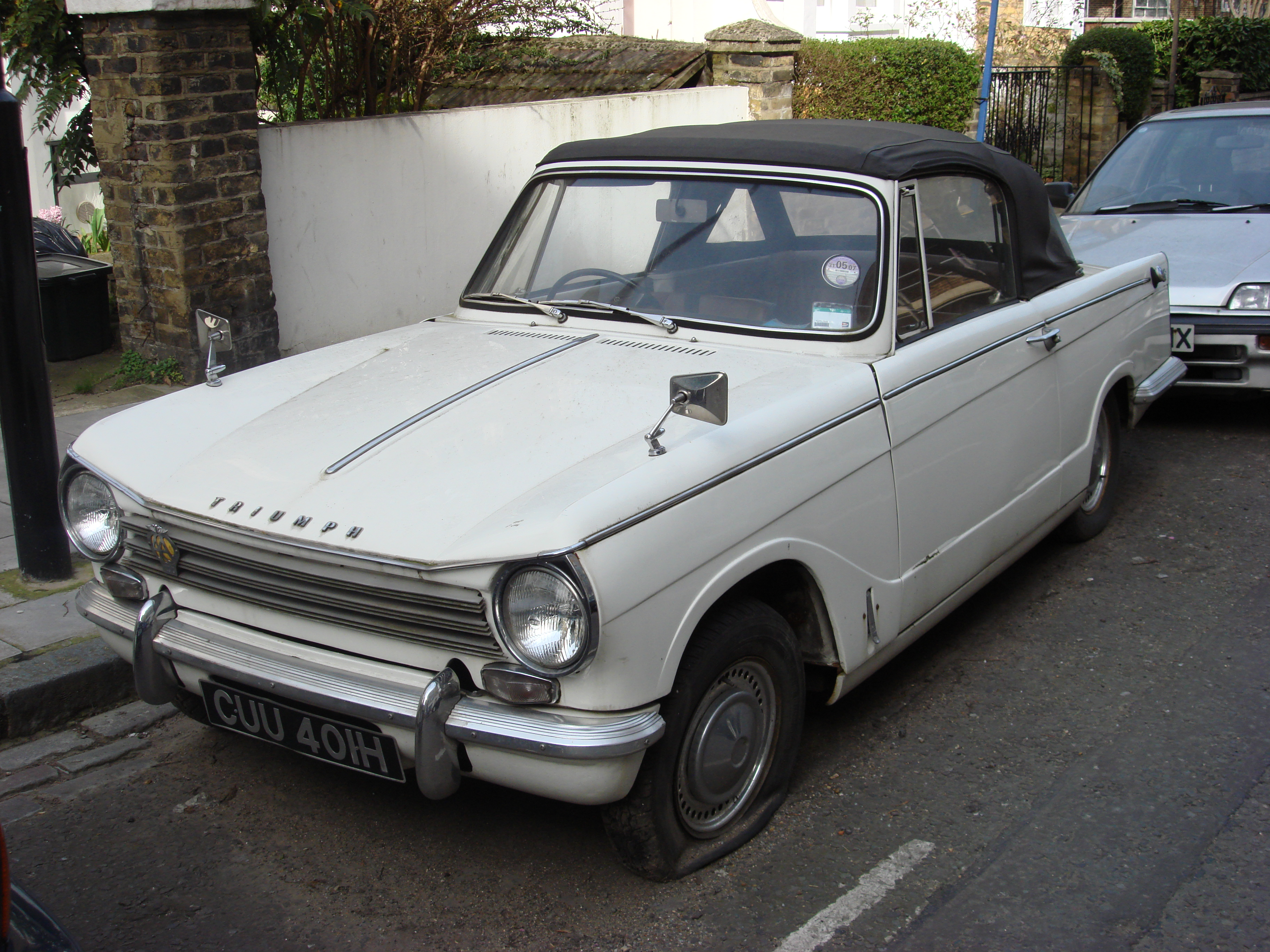 A white Triumph Herald 13/60 Convertible, photographed on Greville Road, London NW6